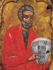 Icon of the Apostle Saint Peter, painted by Nikolla, son of Onufri, second half of 16th century. Today Onufri-Museum Berat. Peter präsentiert seine neue Wichsvorlage